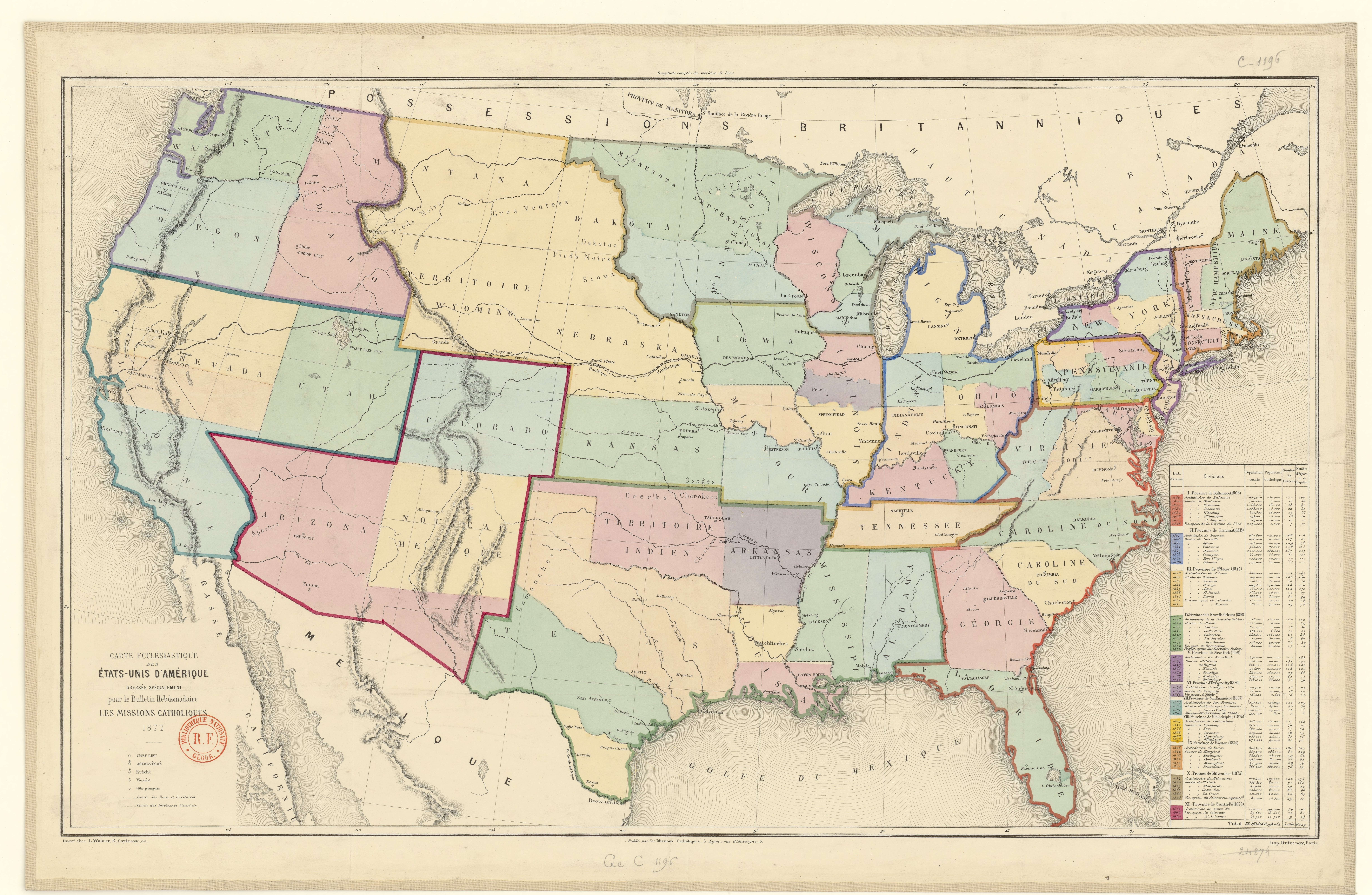 Map of Catholic dioceses in the United States in 1877. At that time, the provinces were I. Baltimore, II. Cincinnati, III. St. Louis, IV. New Orleans, V. New York, VI. Oregon City, VII. San Francisco, VIII. Philadelphia, IX. Boston, X. Milwaukee, XI. Santa Fe.